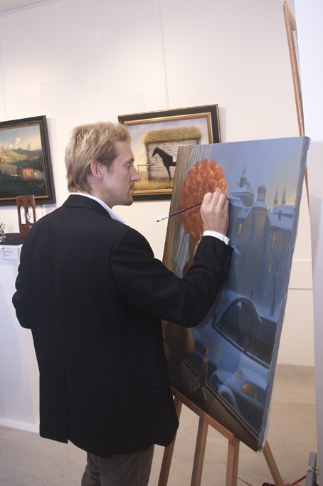 Vladimir Kush painting the original oil, "Daisy Games" in Maui, Hawaii.